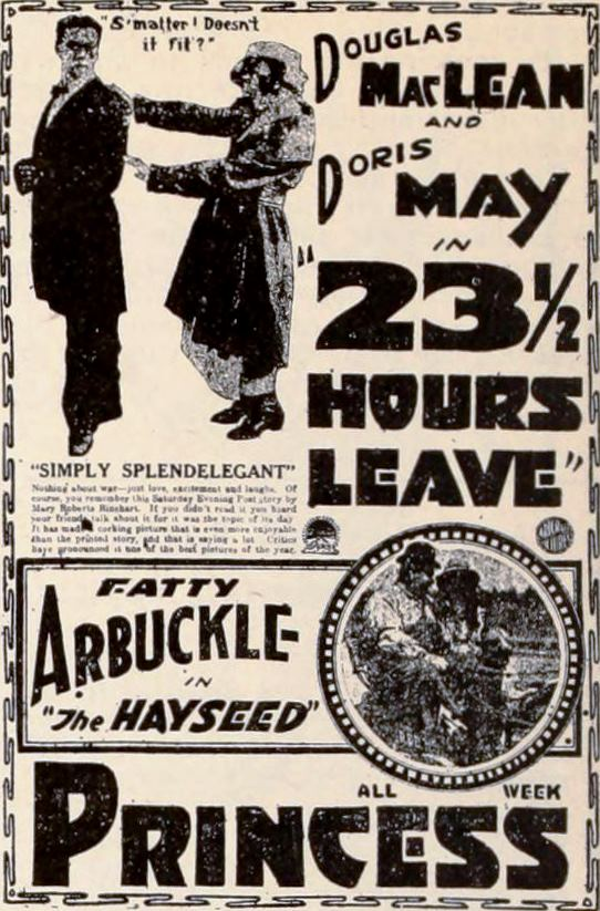 Newspaper advertisement for the American comedy film 23 1/2 Hours' Leave (1919) with Douglas MacLean and Doris May, being shown with the comedy film The Hayseed (1919) with Fatty Arbuckle, originally for the Princess Theater in Denver, Colorado, on page 80 of the December 13, 1919 Exhibitors Herald.